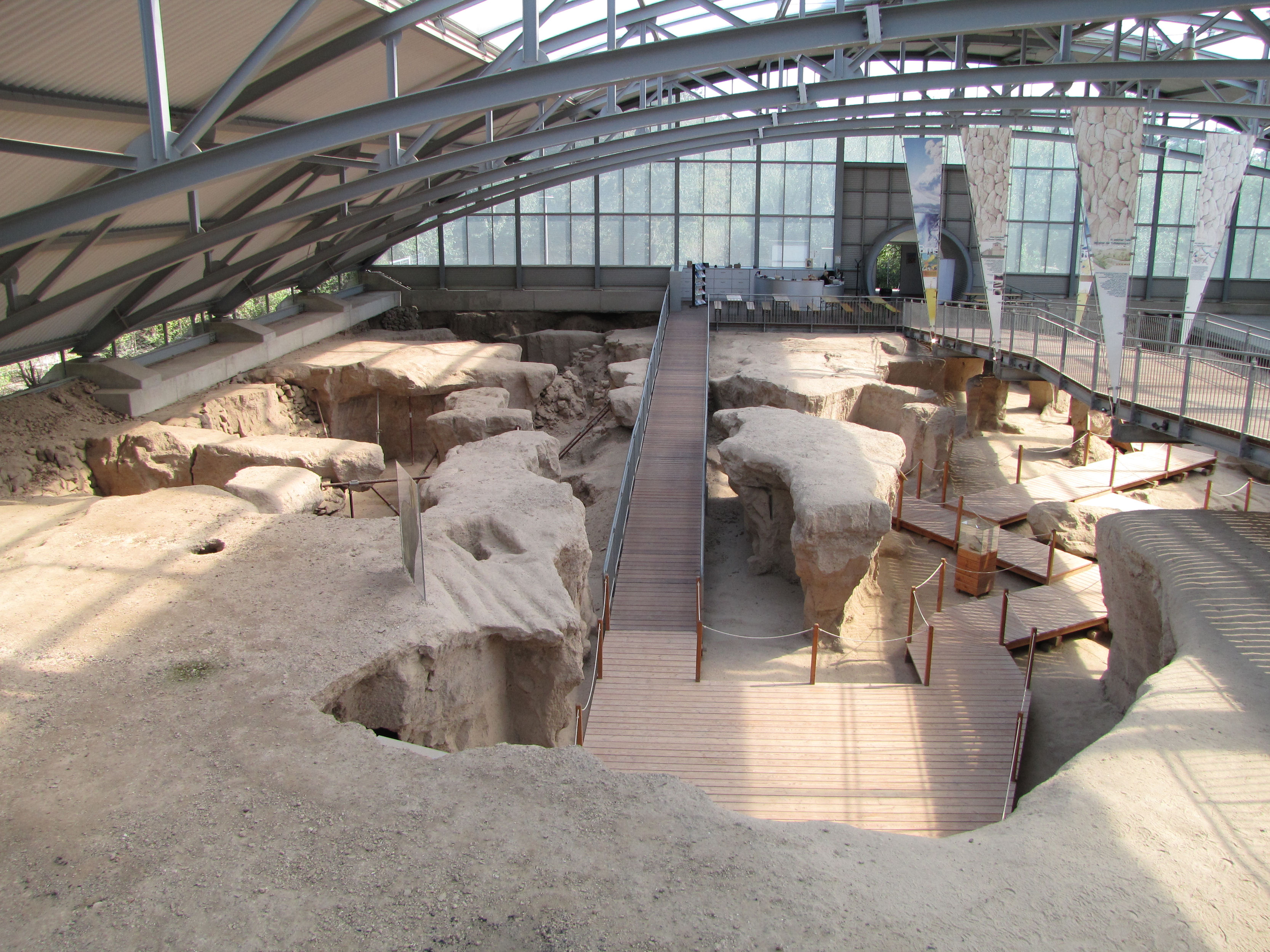 Interior view of the roman mine nearby Kretz